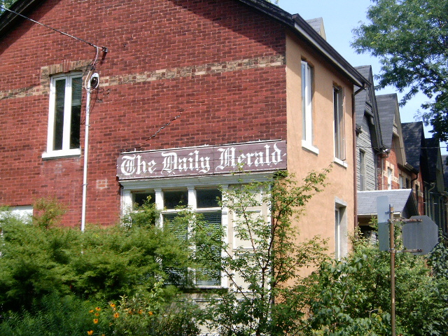 I took this photo in Cabbagetown, Toronto in Summer 2004